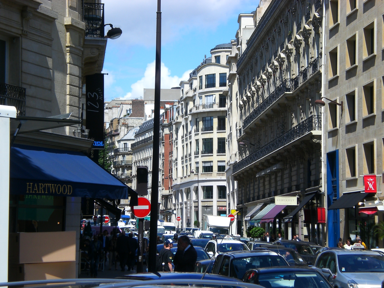 Rue du Faubourg Saint Honoré.